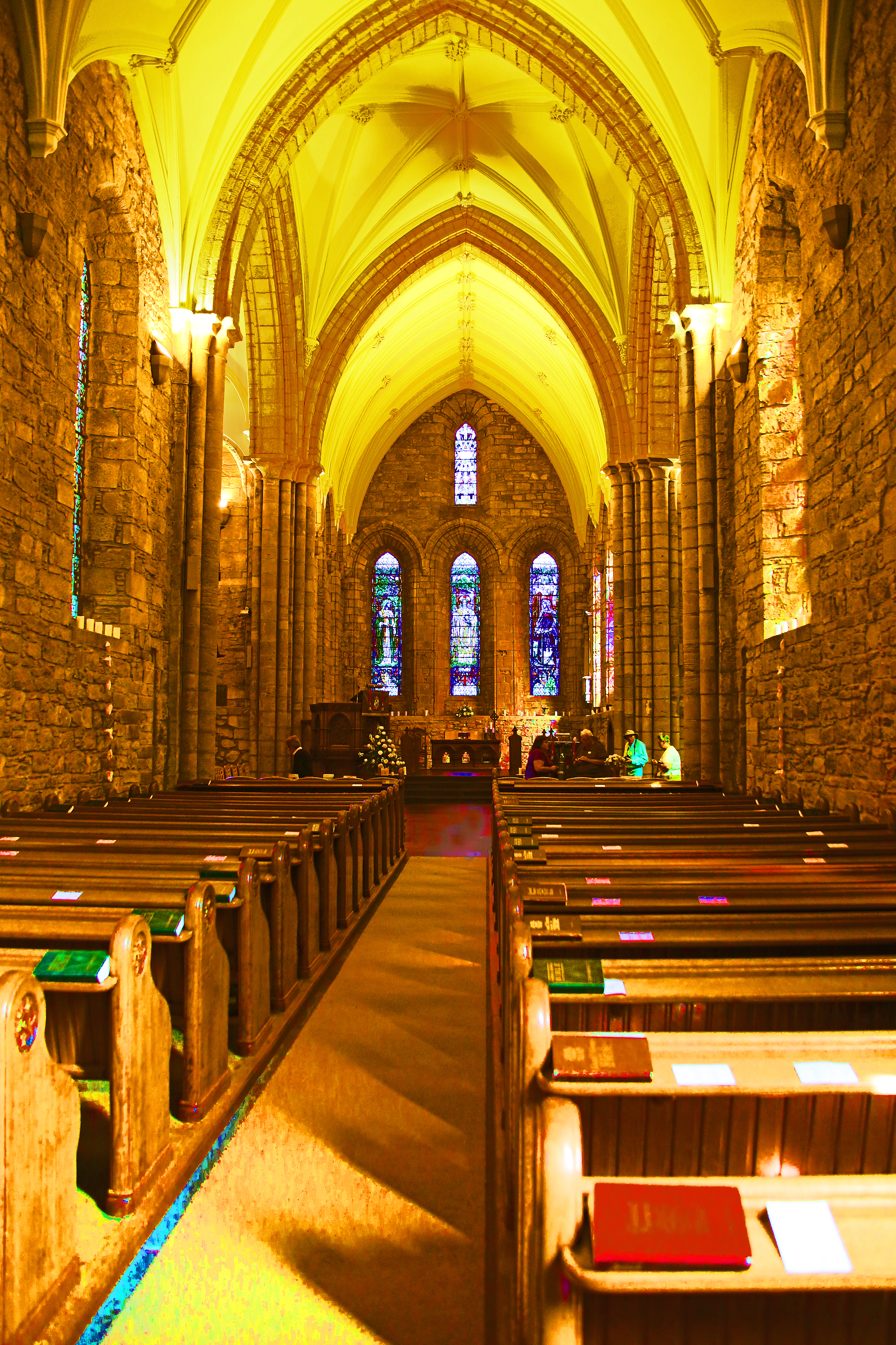 Built in the 13th Century